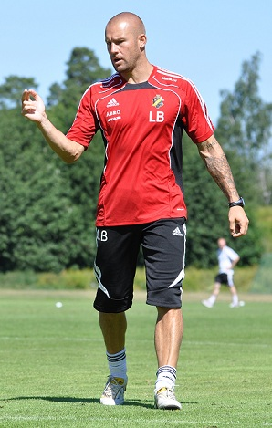 Lee Baxter